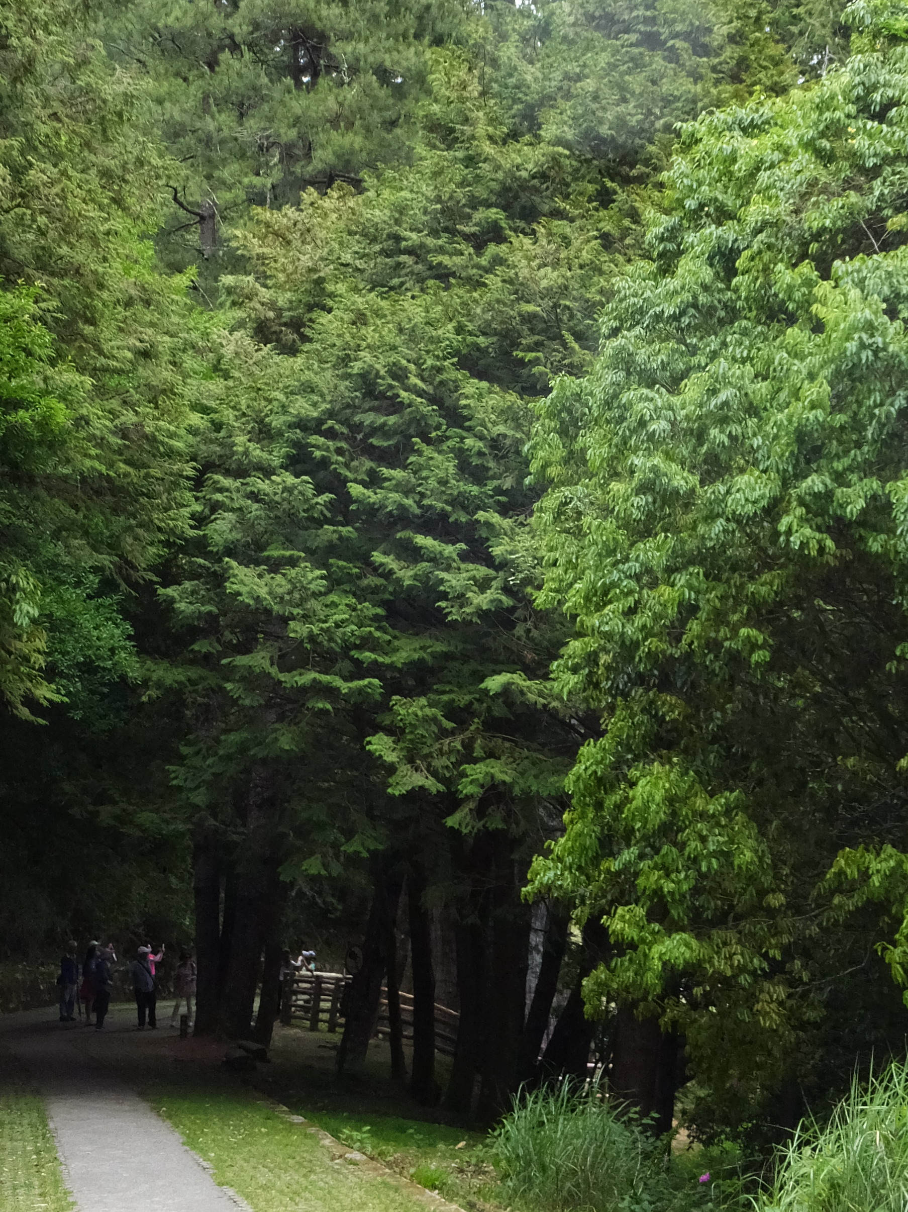 小雪山步道 Mt Little Snow Trail